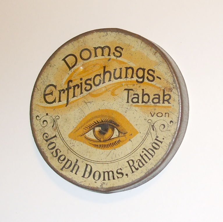 snuff-box